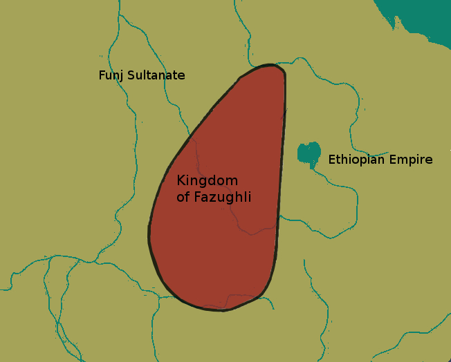 Map depicting the approximate extension of the kingdom of Fazughli. Based on Zarroug's "The Kingdom of Alwa".